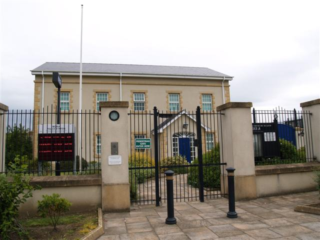 Moira Police Station Not bad looking as buildings go. Still a certain amount of security as you just can't walk in off the street.